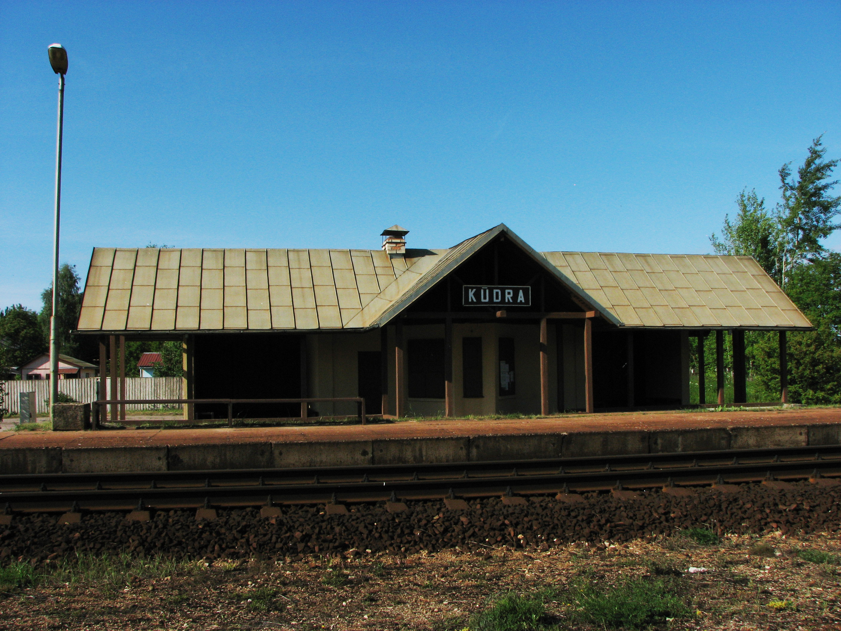 Kudra railway station, Jurmala, Latvia.